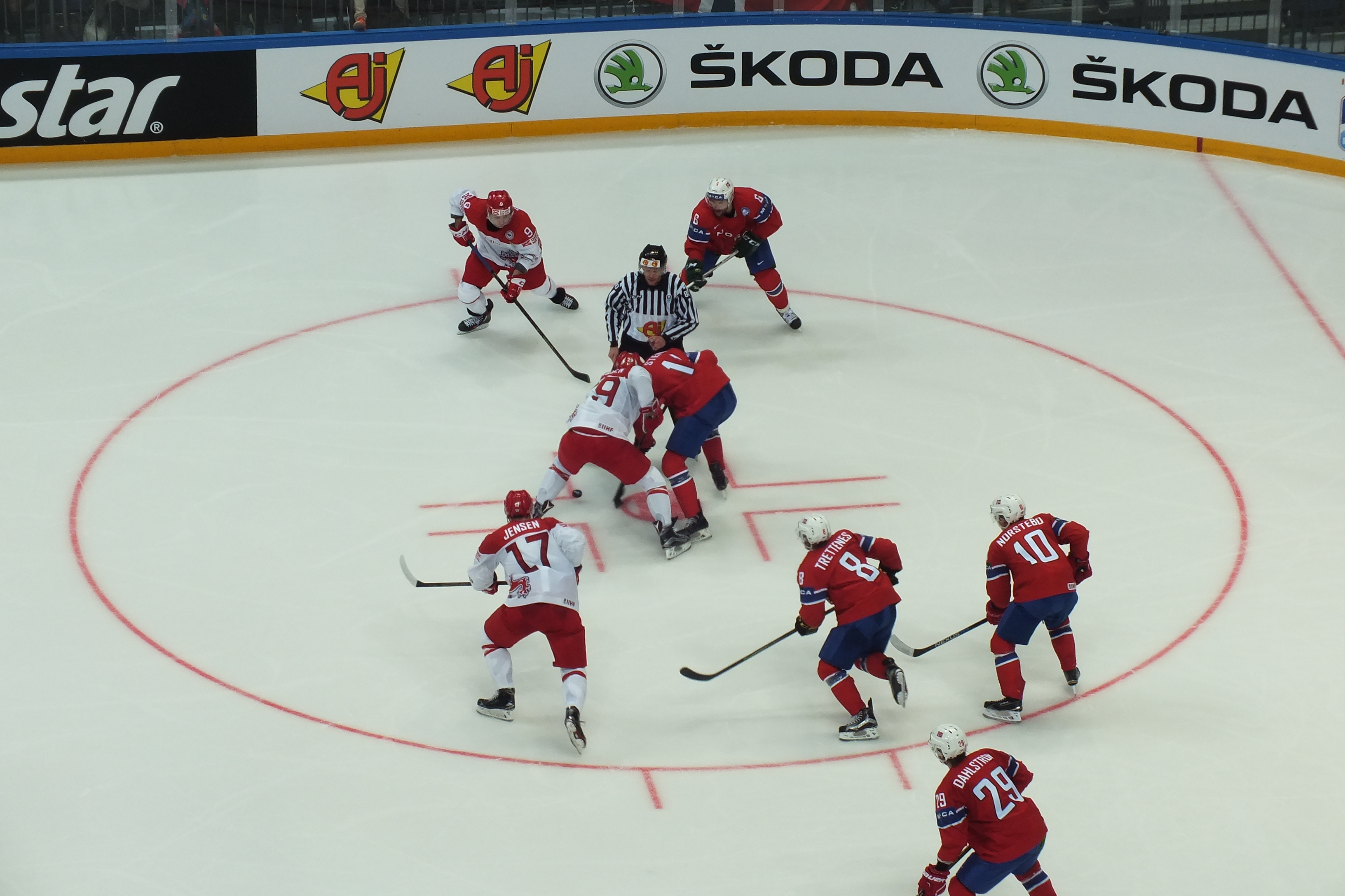 2016 IIHF World Championship - Norway vs. Denmark (07.05.16).